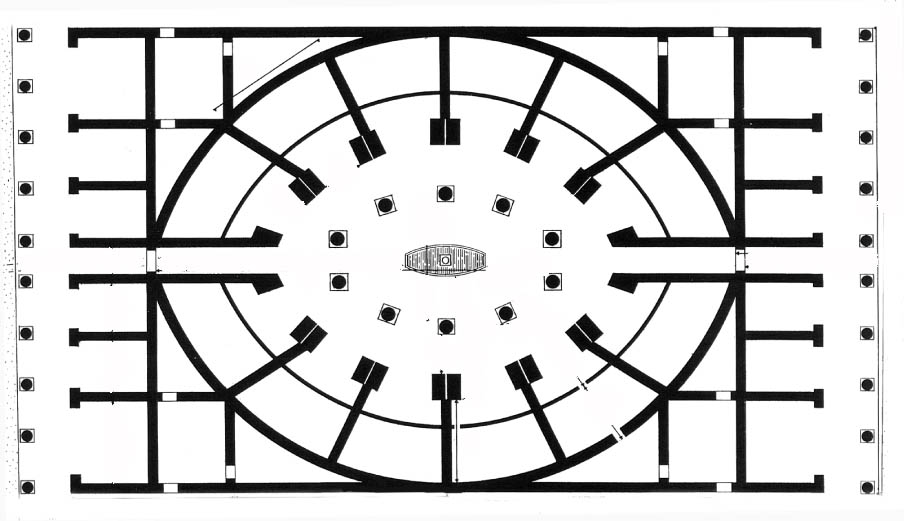 line drawing of Deva elliptical temple (first)